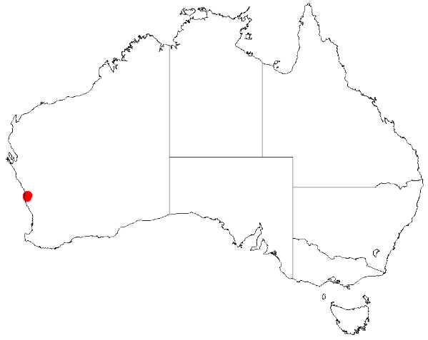 Scaevola eneabba occurrence data downloaded from Australasian Virtual Herbarium 12 May 2019